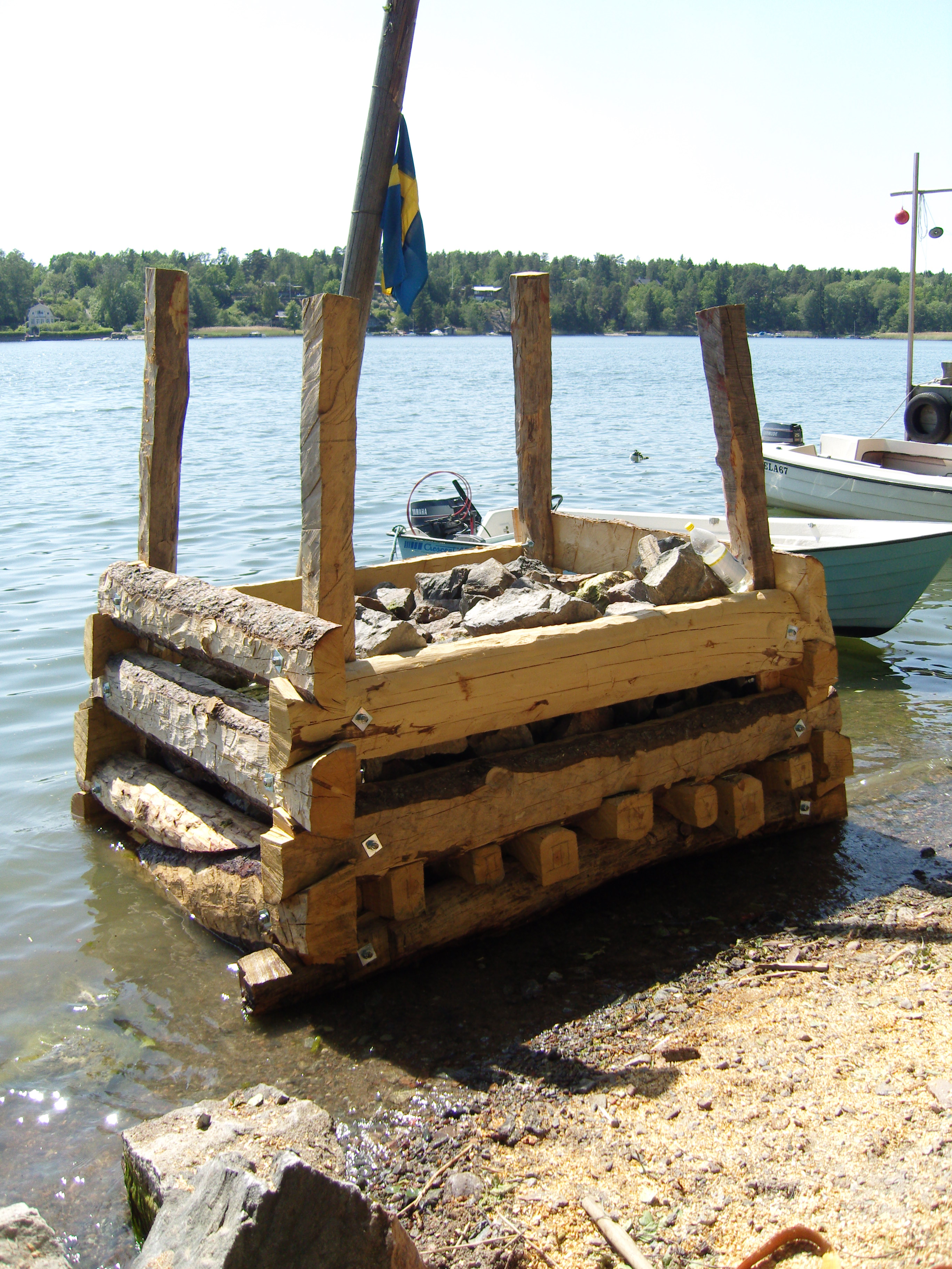 (Sänk-kista)